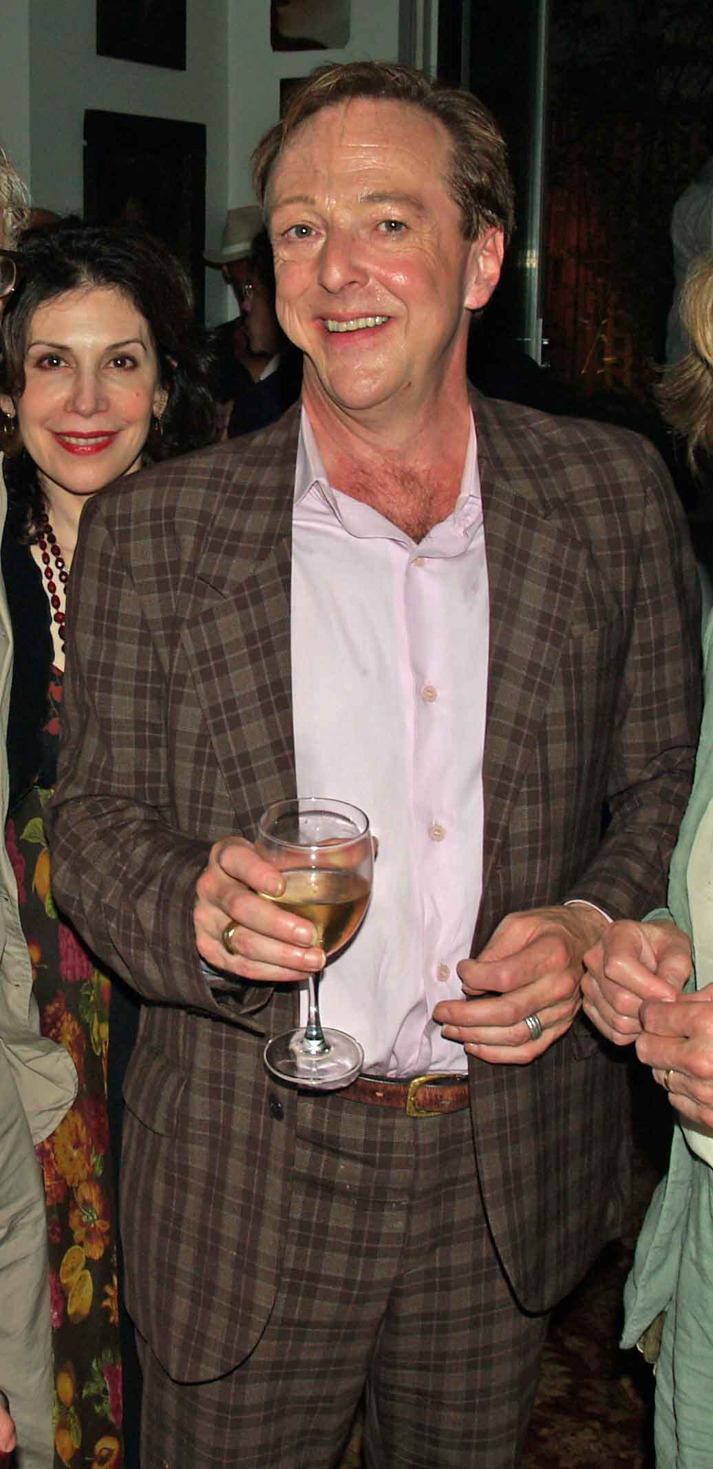 Edward Hibbert by David Shankbone